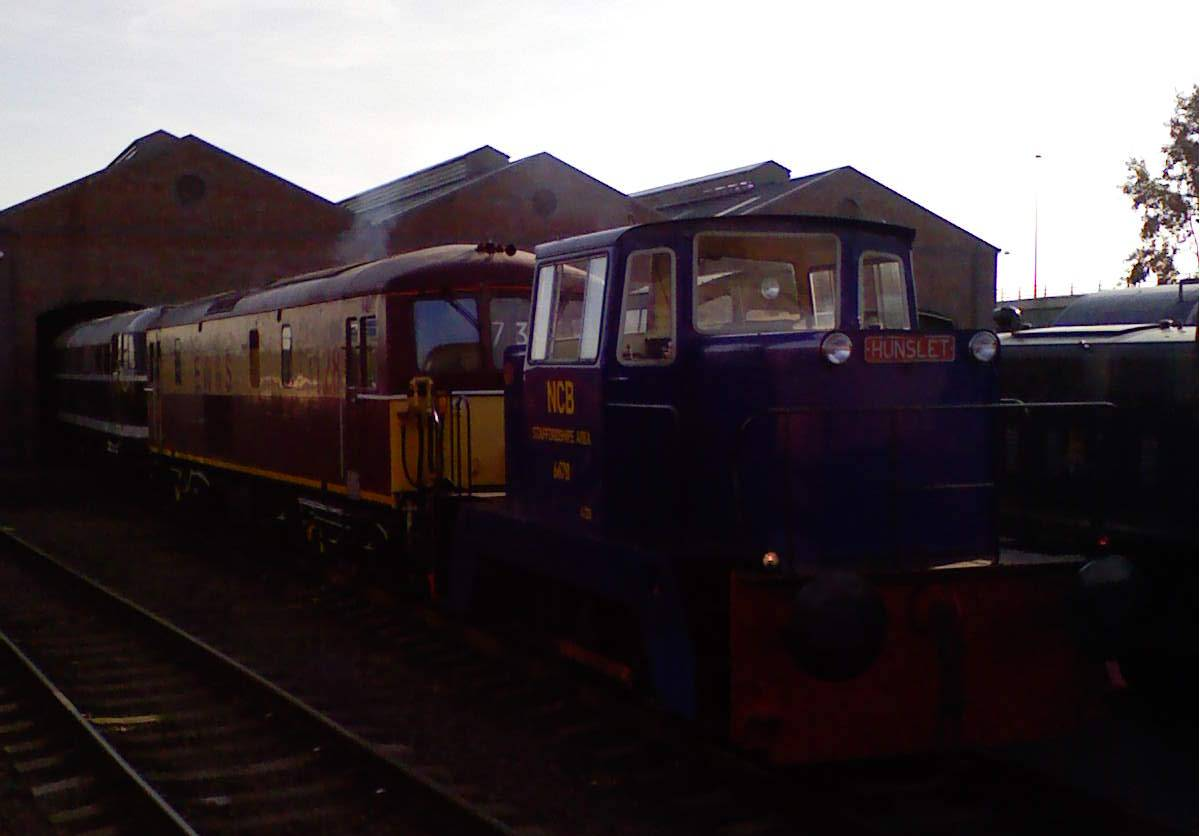 A selection of diesel locomotives on the Chasewater Railway, photographed by myself on 22 October 2007